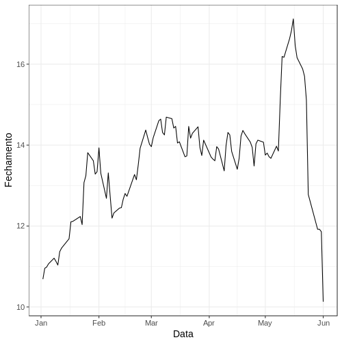 Close prices for Petrobras shares from 1 Jan 2018 to 1 Jun 2018. Data from